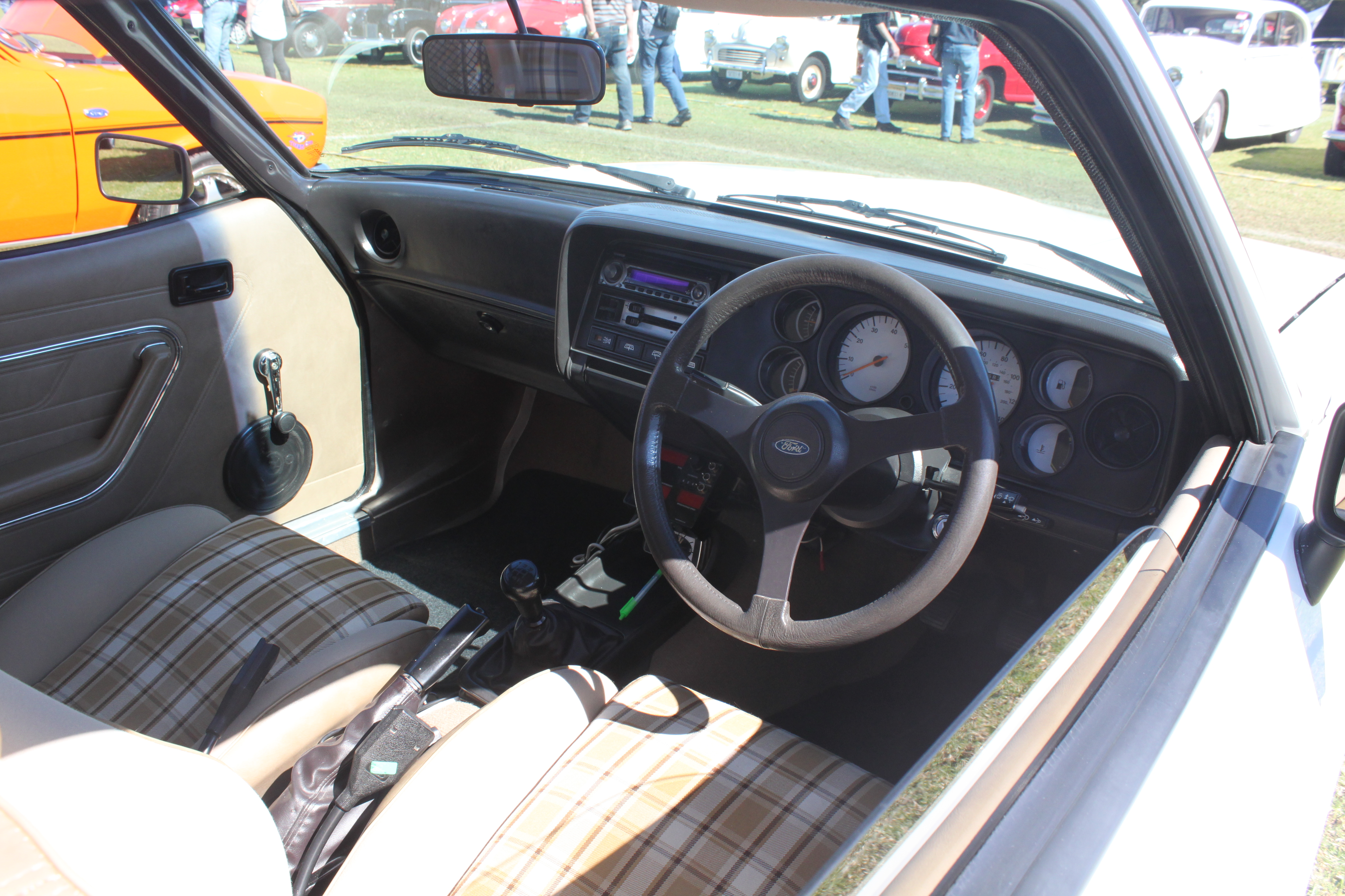 All British Day, Kings School, North Parramatta, NSW August 2015